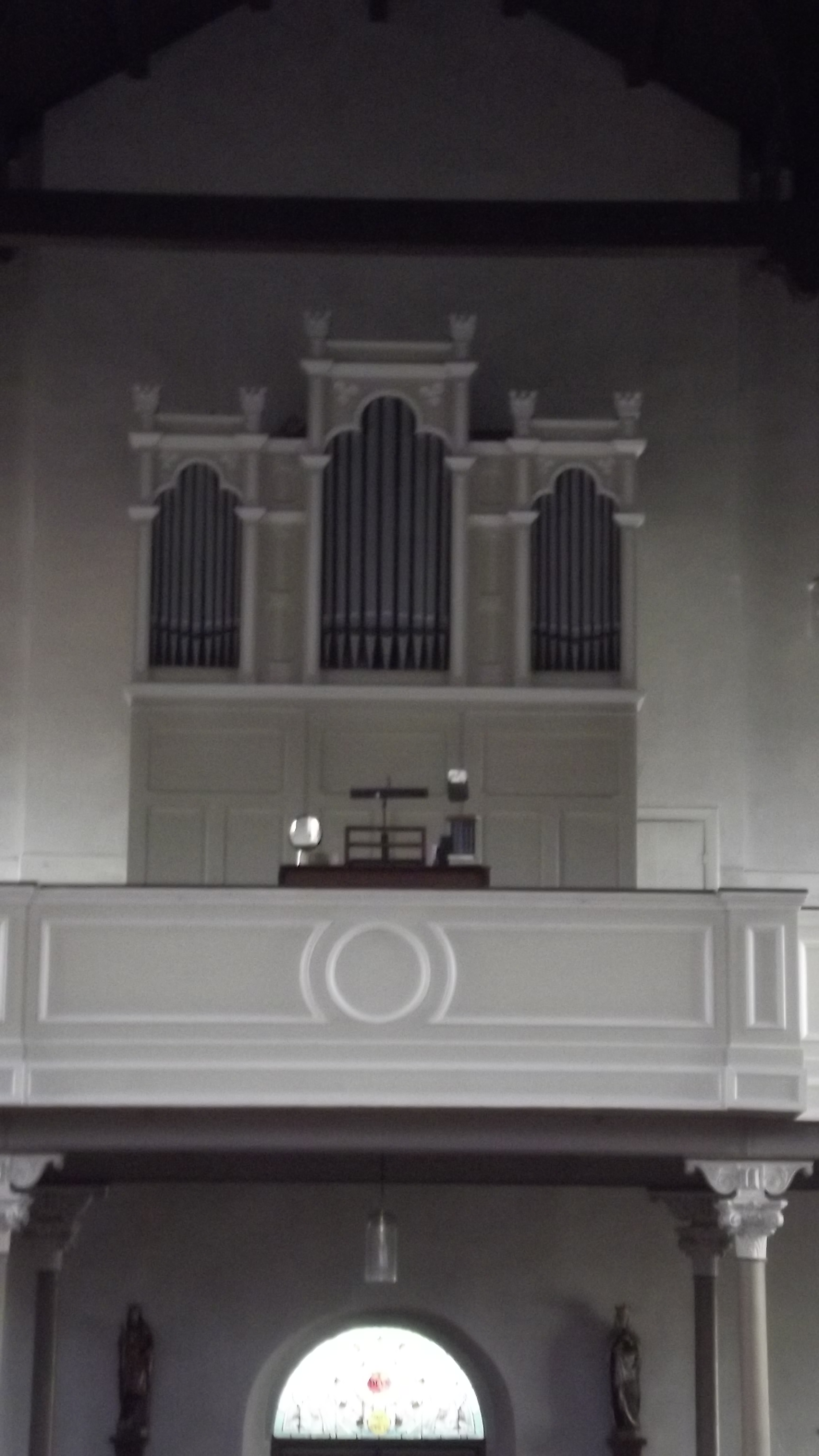 Interior of the roman catholic church in Namborn, Saarland